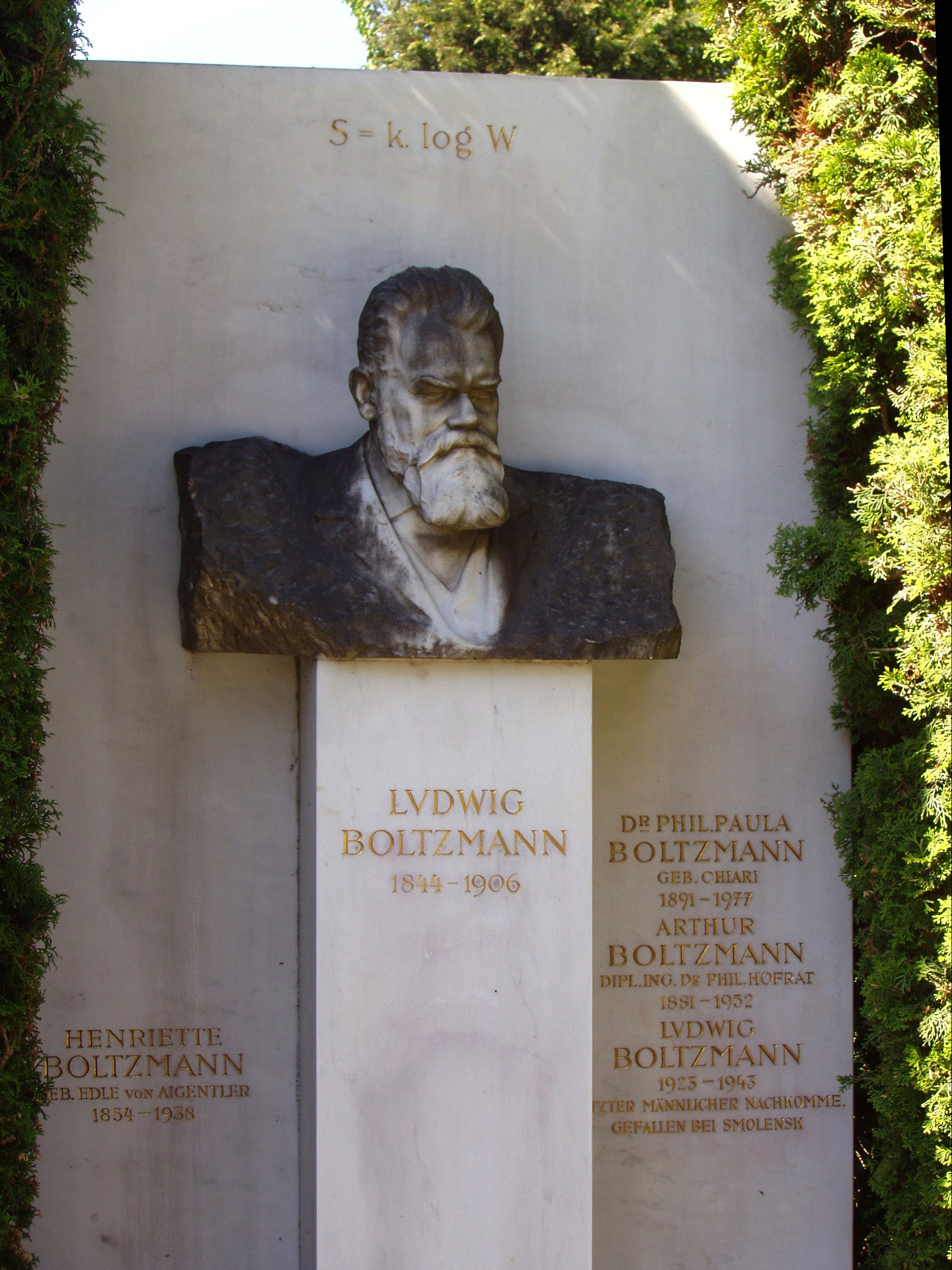 Grave of Ludwig Boltzmann, physicist, on Zentralfriedhof (Central Cemetery), Vienna, Austria